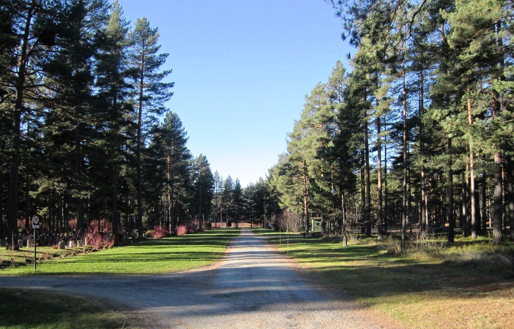 Kongsberg cemetery